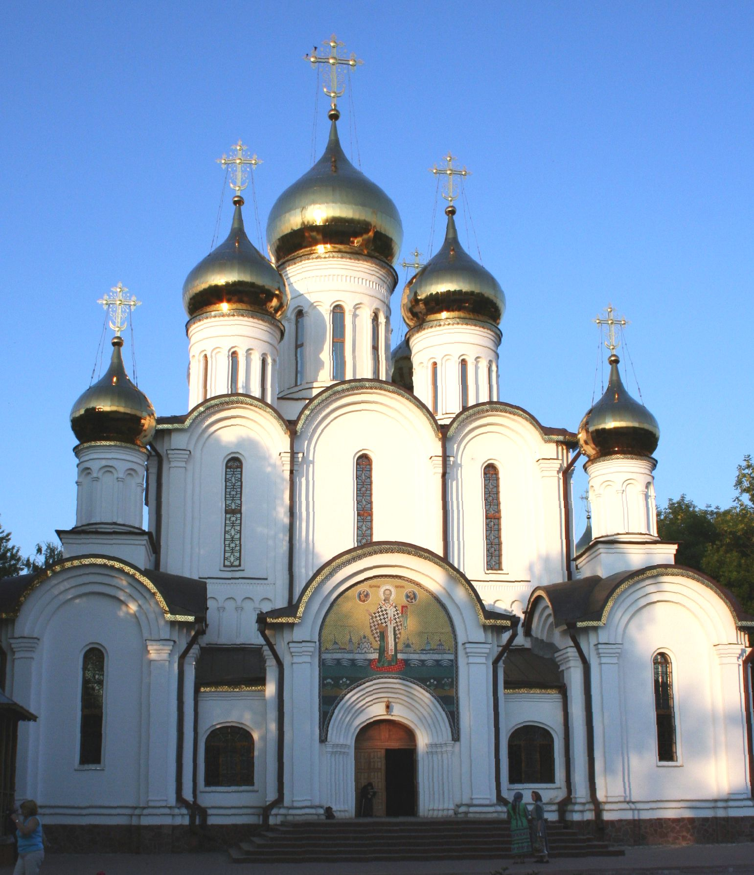 Nikolsky Cathedral in Pereslavl-Zalessky. (August, 2005)